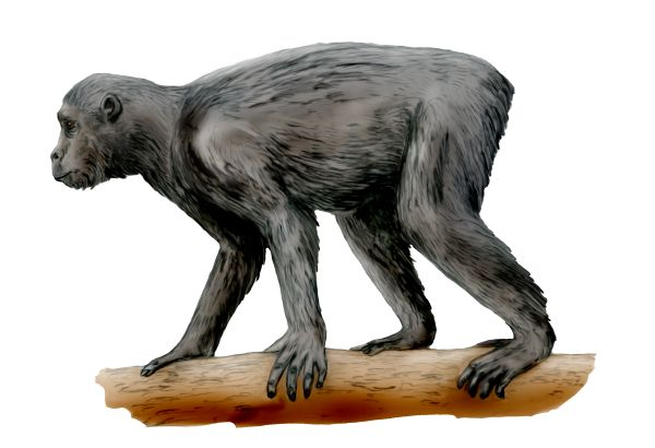 proconsul